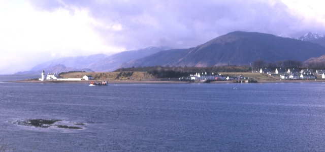 Looking across the Corran Narrows in Loch Linnhe to the Ardgour peninsula. This is where one of the few surviving small ferries in the Highlands still plies.